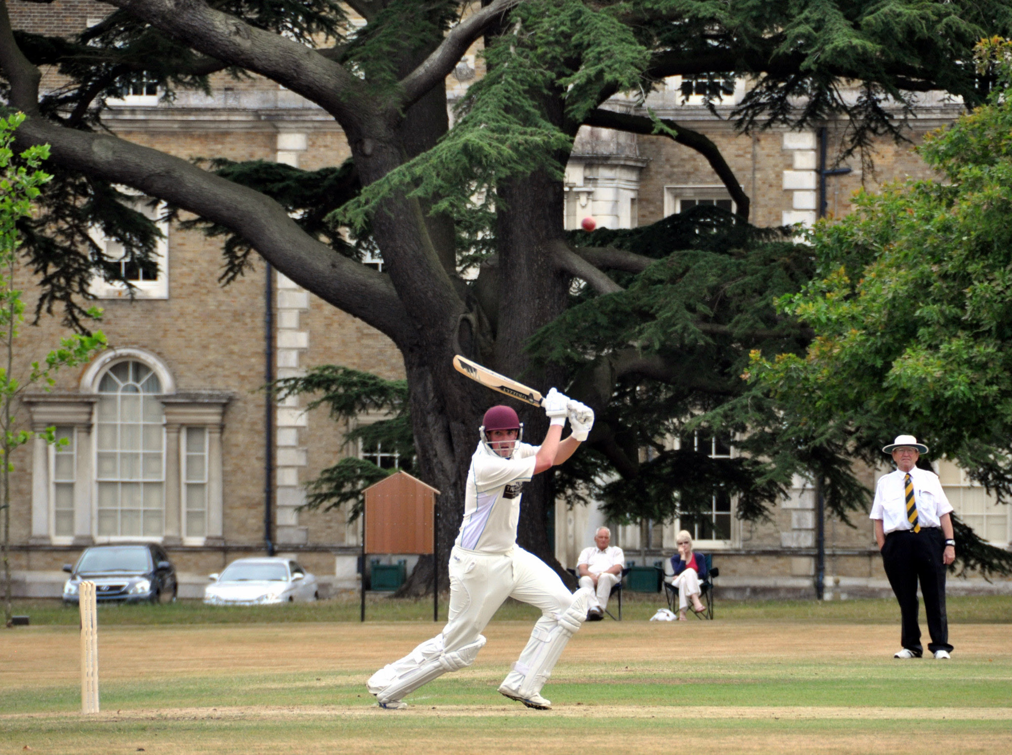 The I Anson Stevens Cup Final being played on the Historic Peper Harow house ground